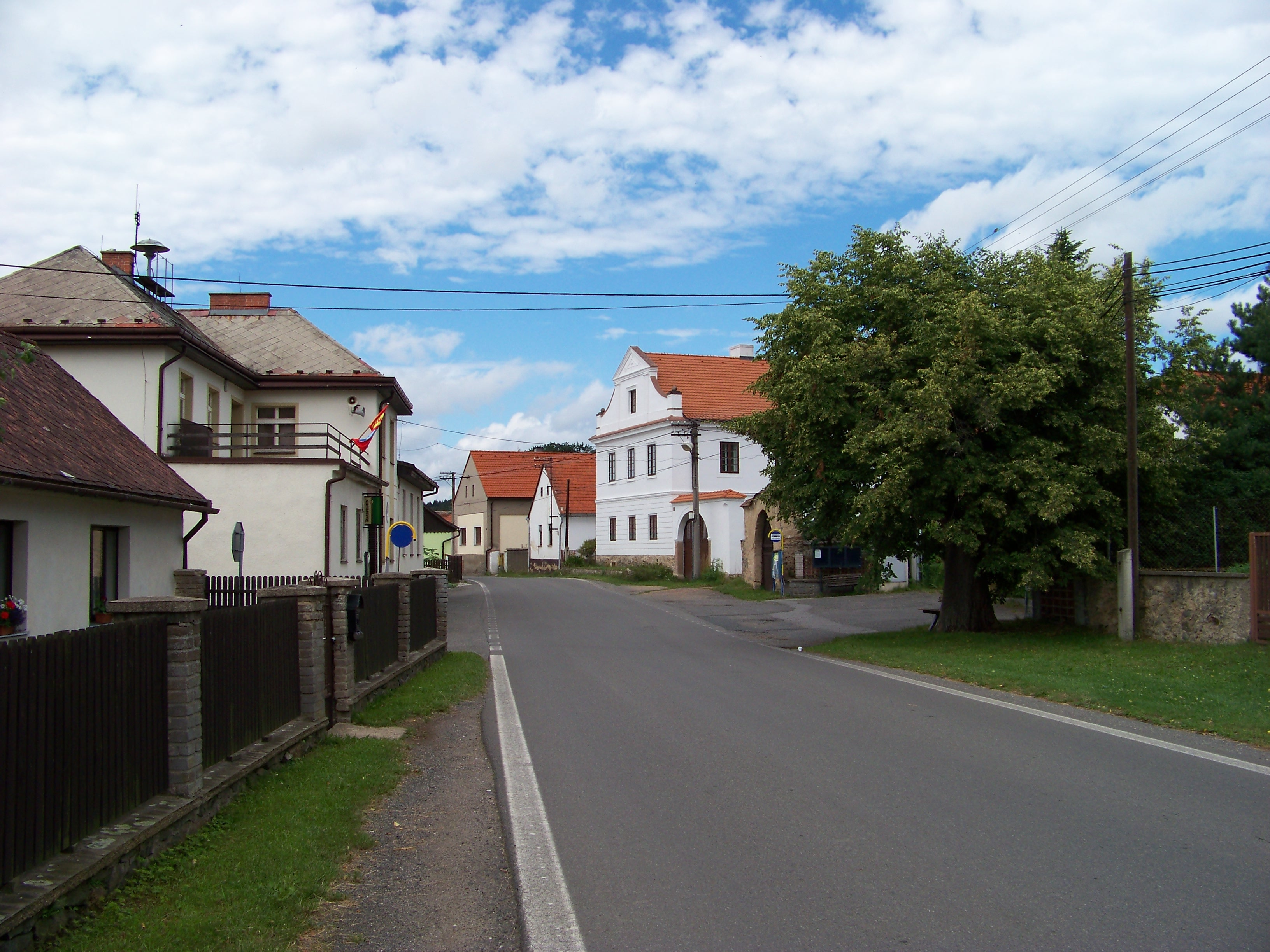 Radětice, Příbram District, Central Bohemian Region, the Czech Republic. Road III/11812, a bus stop and a municipal office. - OpenStreetMap(Info)